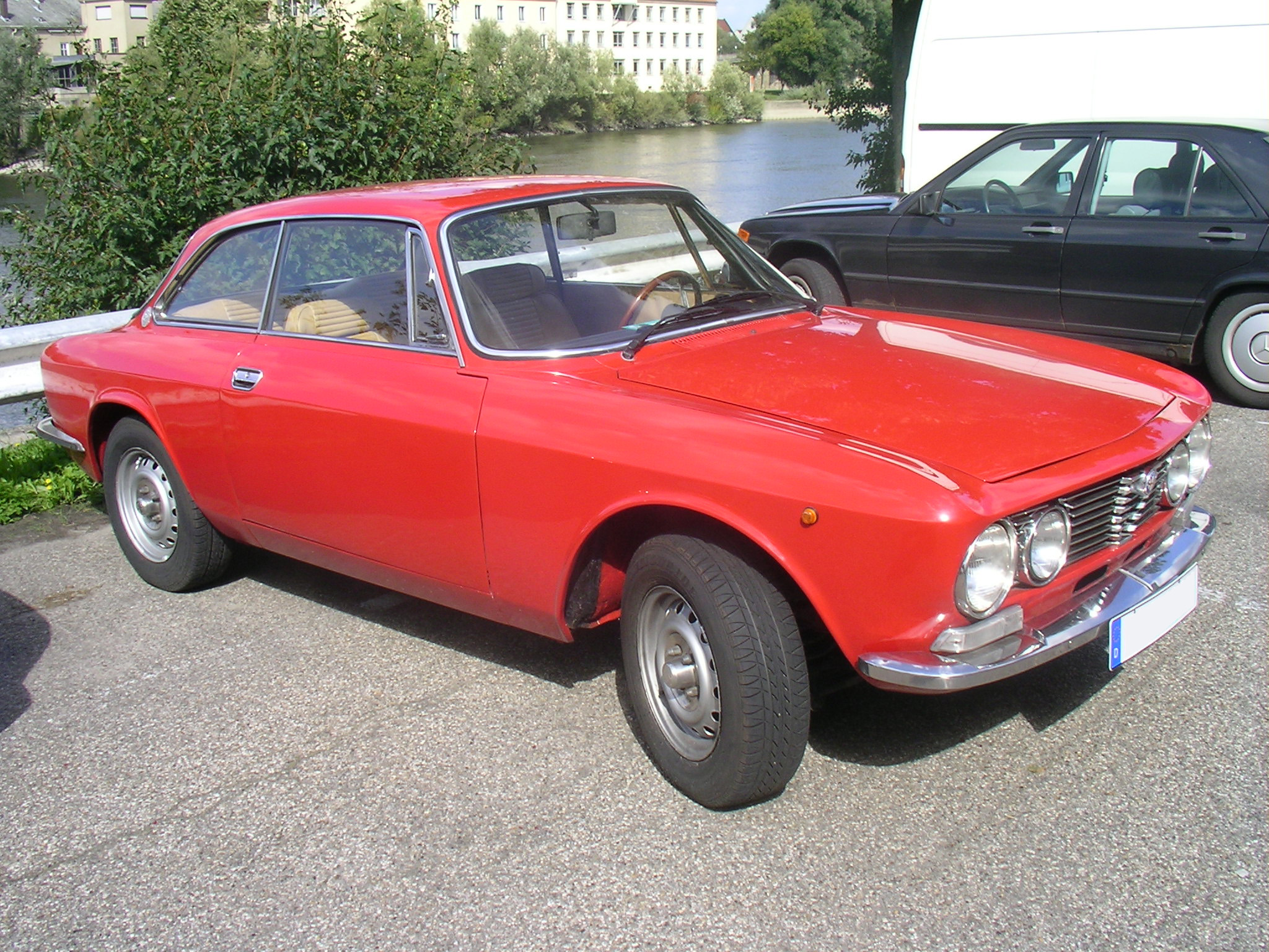 Alfa Romeo GT 1300 Junior